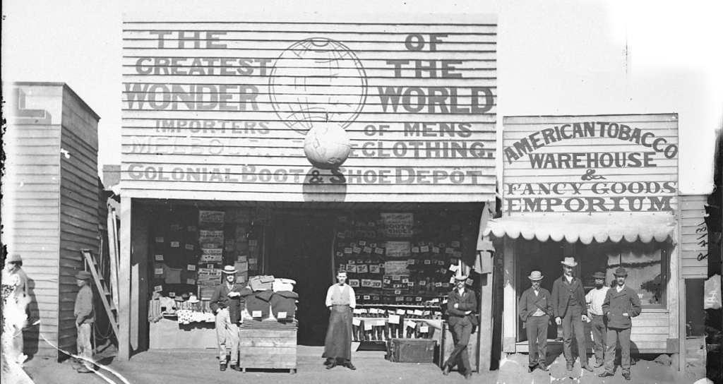 Historical photo of Gulgong Holtermann Museum buildings